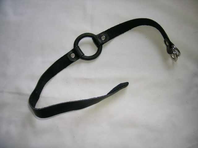 Ring gag